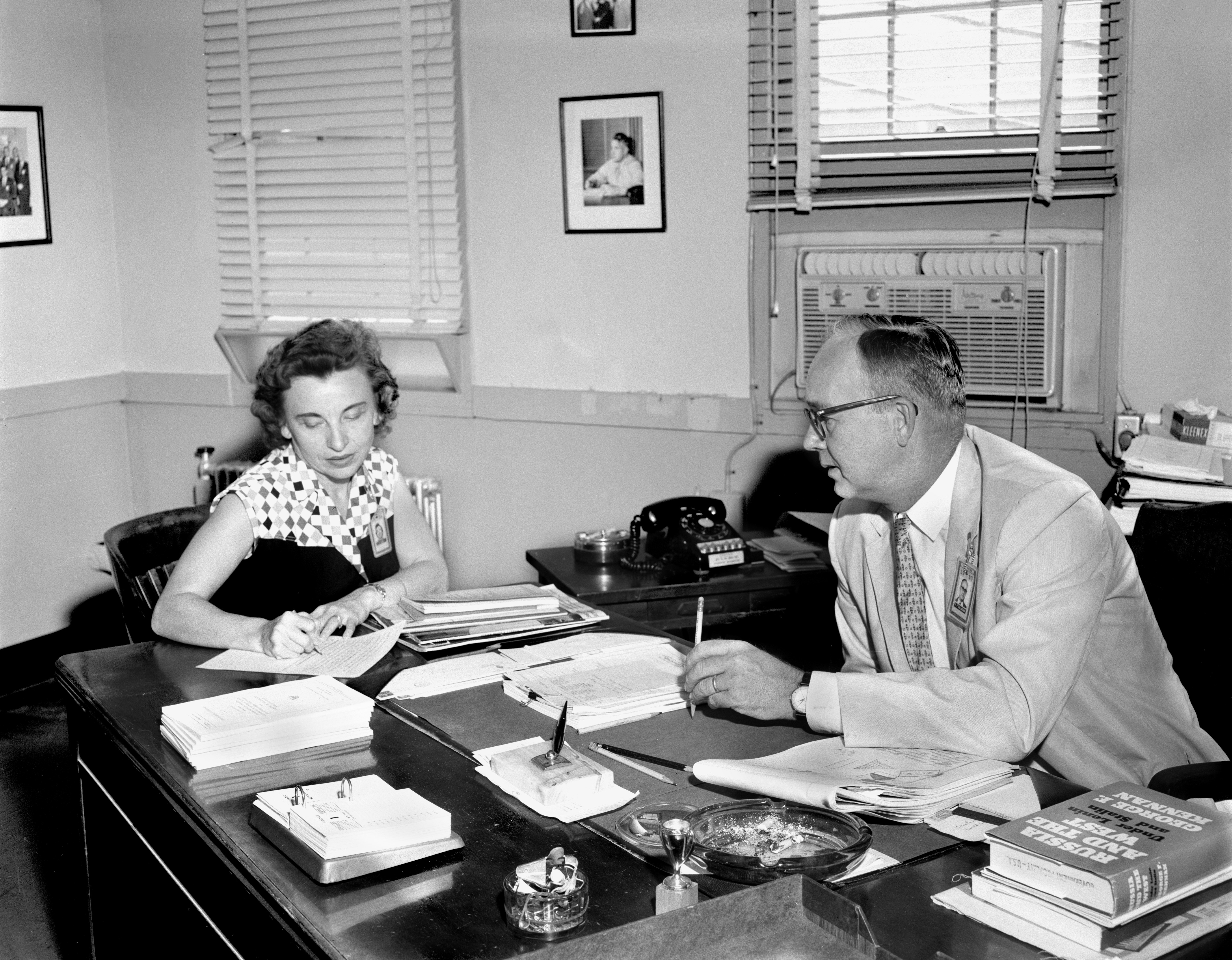 61-1129a 61-1129b DOE photo T.R. Cook L to R Ruth Carey and F.P. Callaghan 9-1-2016 Oak Ridge Tennessee